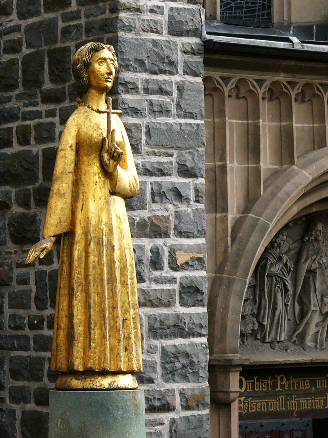 Holy Agatha, a figure outside St. Martinus Church. Every year since 1665 the citizens of Olpe have made a vow to her to protect the city from fire.